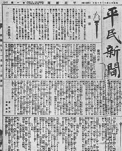 Common Peoples' Newspaper